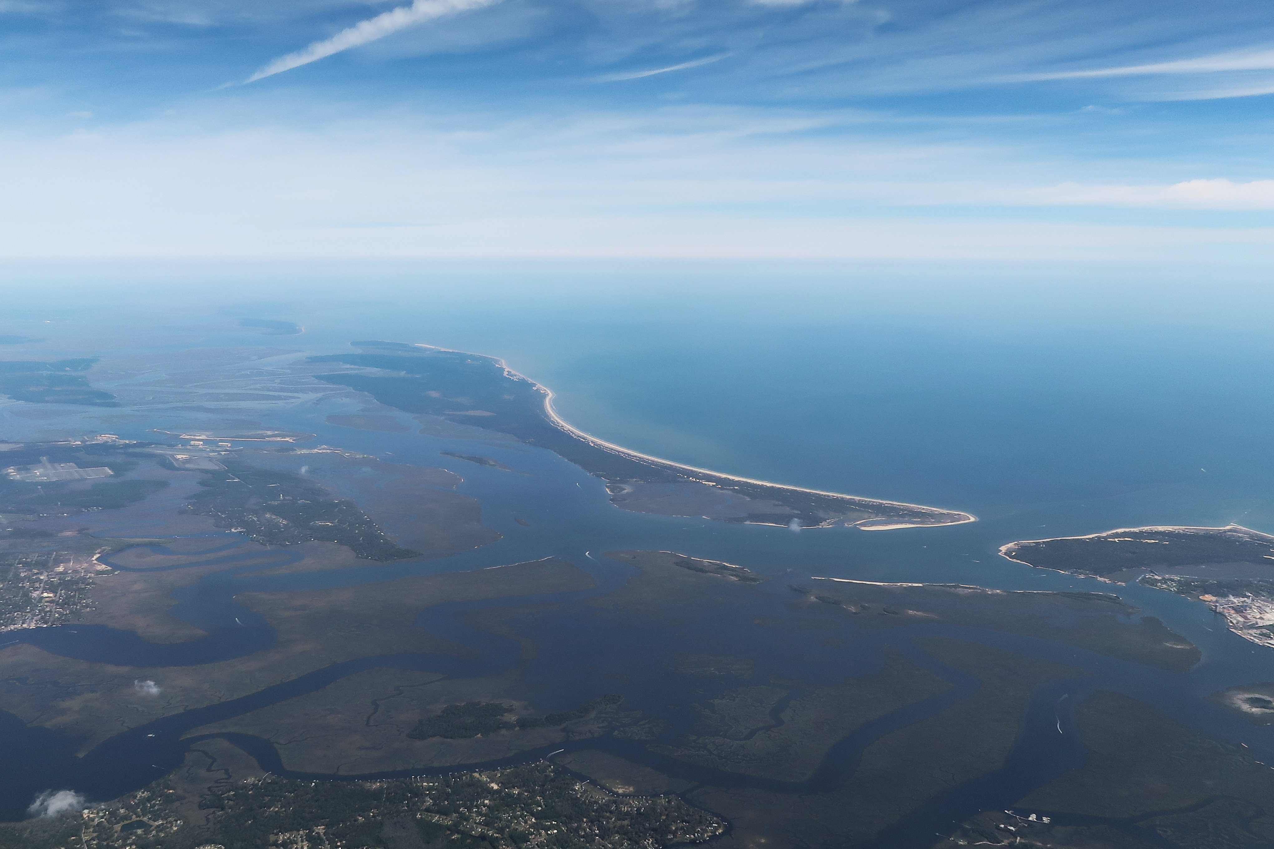 Aerial view of Cumberland Island from the southwest, as viewed from an aircraft shortly after takeoff from Jacksonville International Airport.